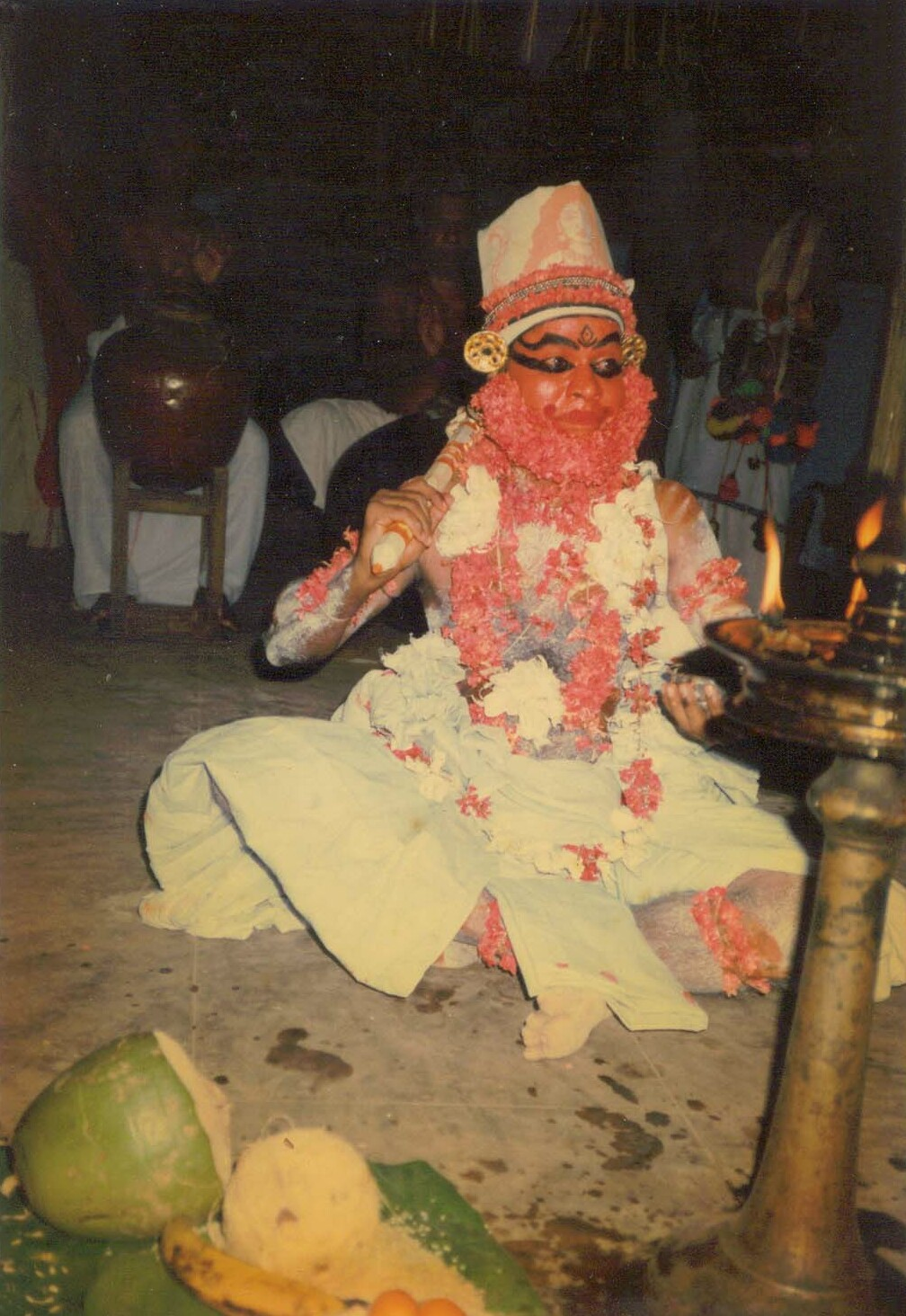 Guru Mani Damodara Chakyar as "Kapali" in the sacred ritualistic Kutiyattam- Mattavilasa Prahasana (Mathavilasam) practised in very few Hindu temples of Malabar. A very rare photo taken from inside Killikkurussi Mahadeva Temple, Palakkad.